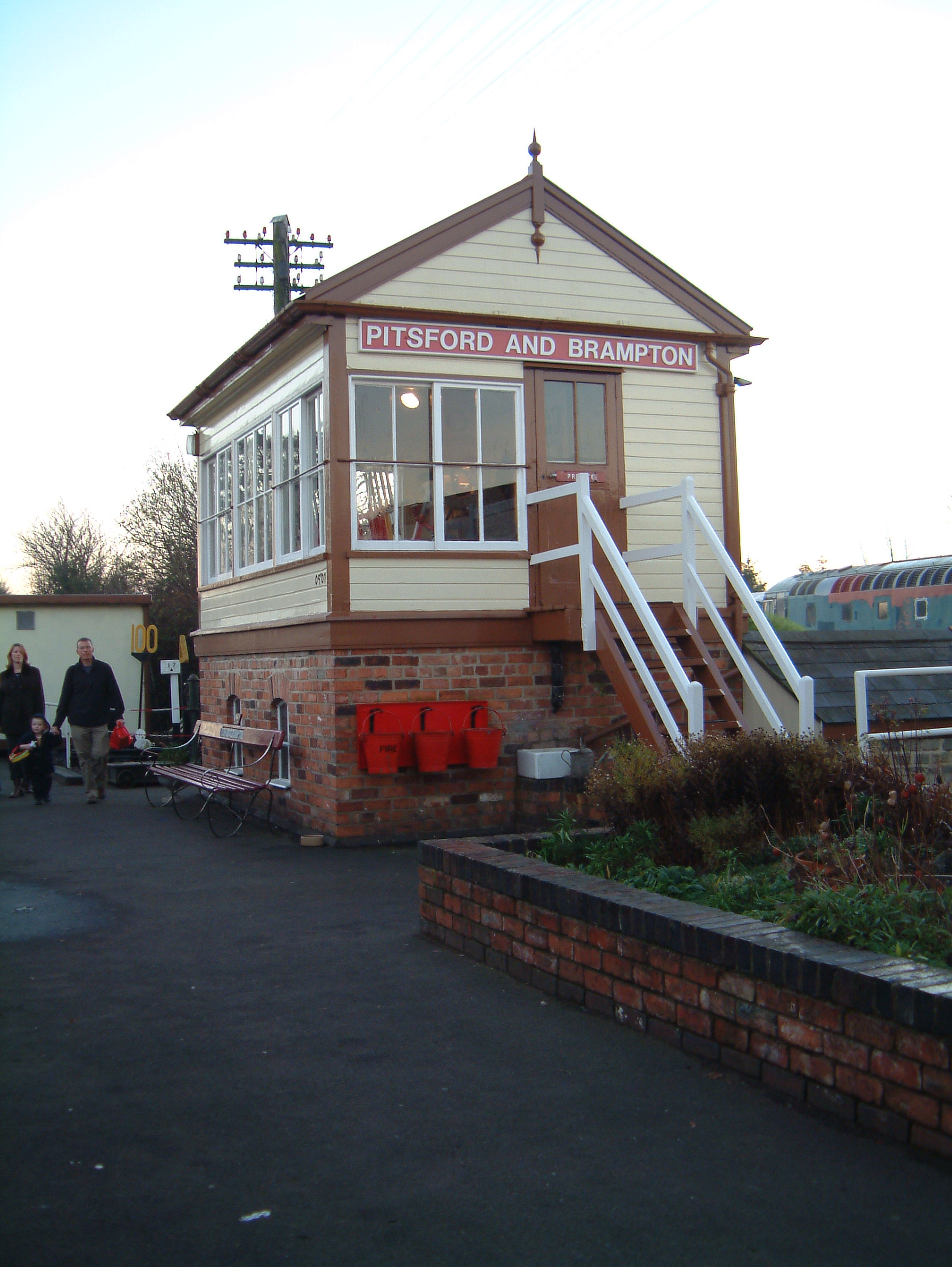 Signal box at Pitsford and Brampton railway station on the Northampton & Lamport Railway. Photo by -=# Amos E Wolfe talk #=